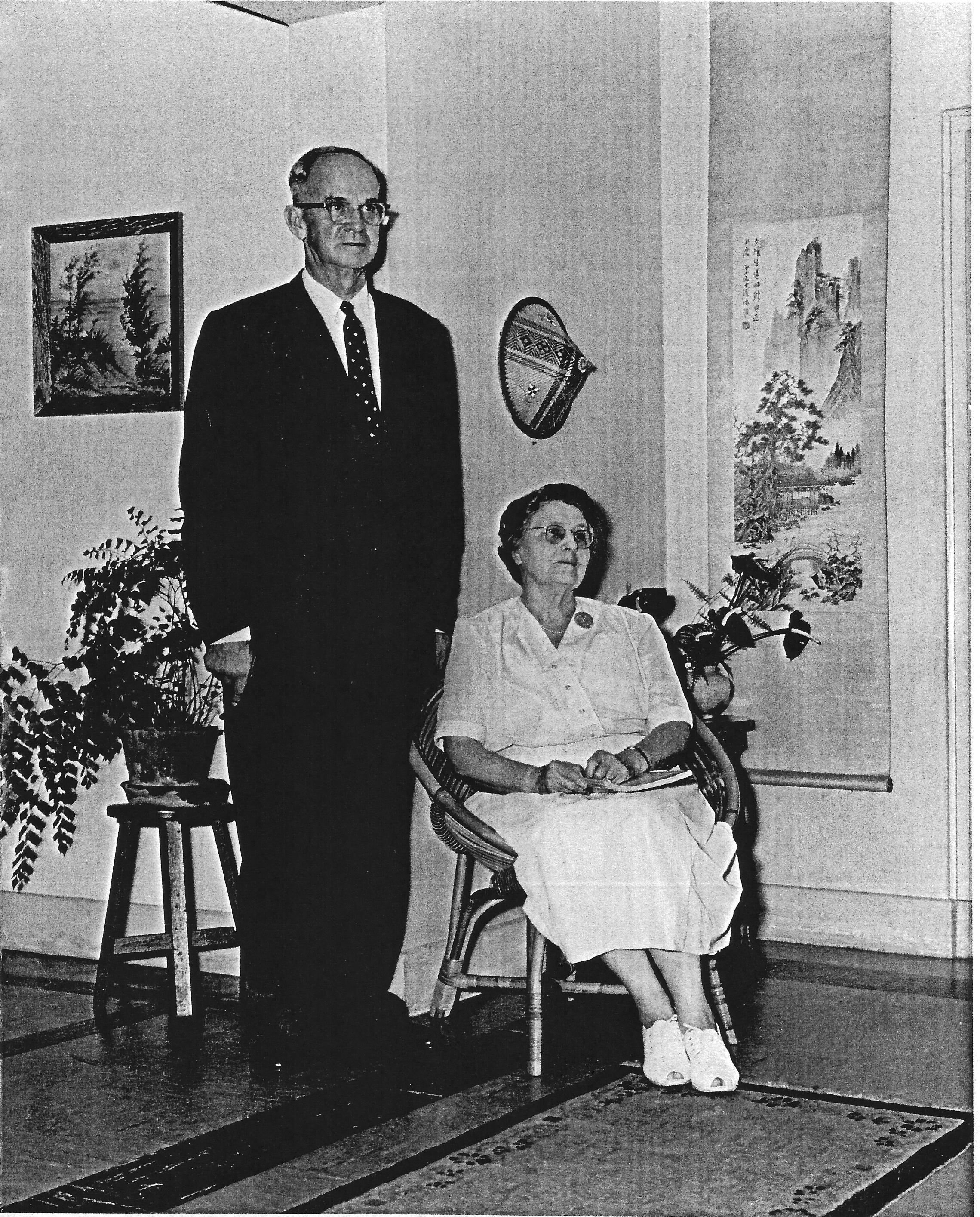 Hubert and Helen Sone at Trinity College, in Singapore before returning to the U.S.